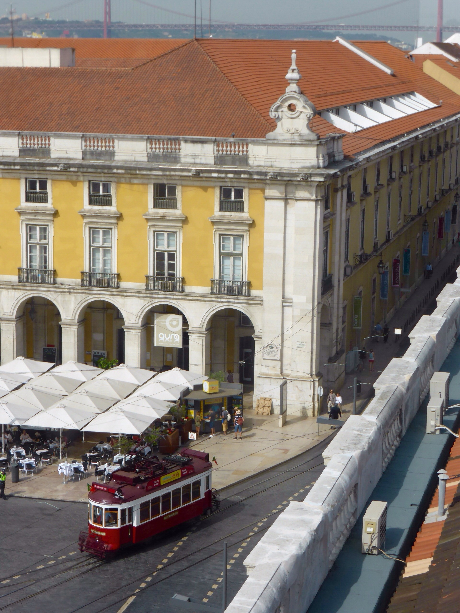 We had a week in Lisbon in early June. Had a good look around the city.